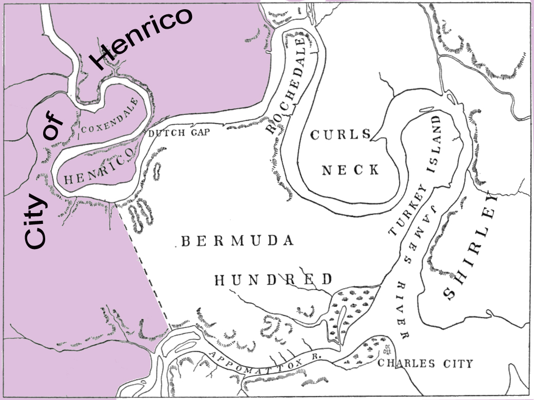 This is a map of the Approximate Boundaries of the City of Henrico in 1619 according to Historian Alexander Brown in his book, The First Republic of America. Base of May is from map in T. J. Wertenbacker's (1914) Virginia Under the Stuarts, underlying map image taken from Wikimedia Commons image: Virginia Under the Stuarts - Dale's Settlements.png